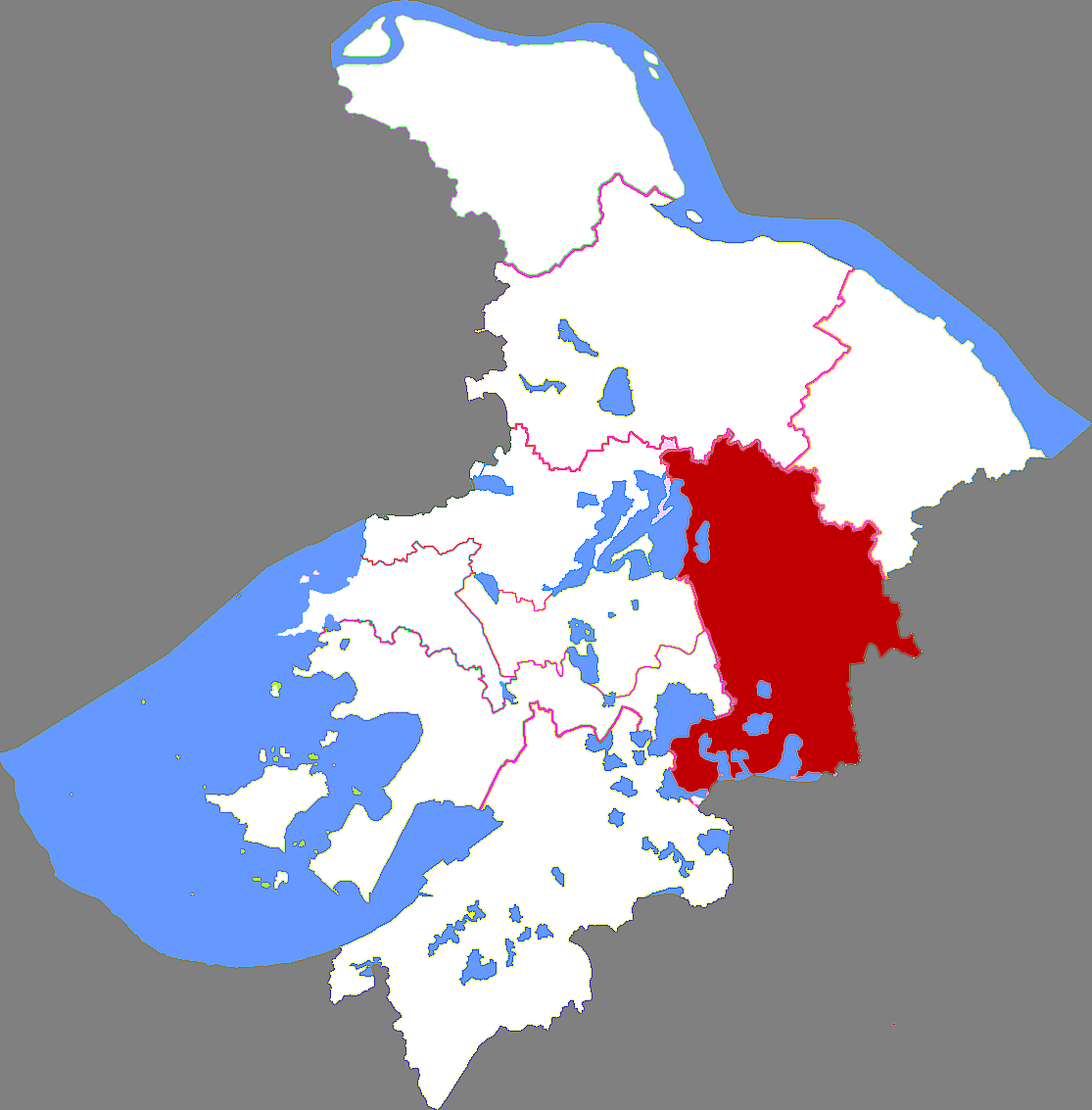 Location of Kunshan county-level city in Suzhou city of Jiangsu province, China